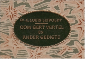 Book cover. Loosely translates as Dr. C. Loius Leipoldt. Uncle Gert's stories and other poems.